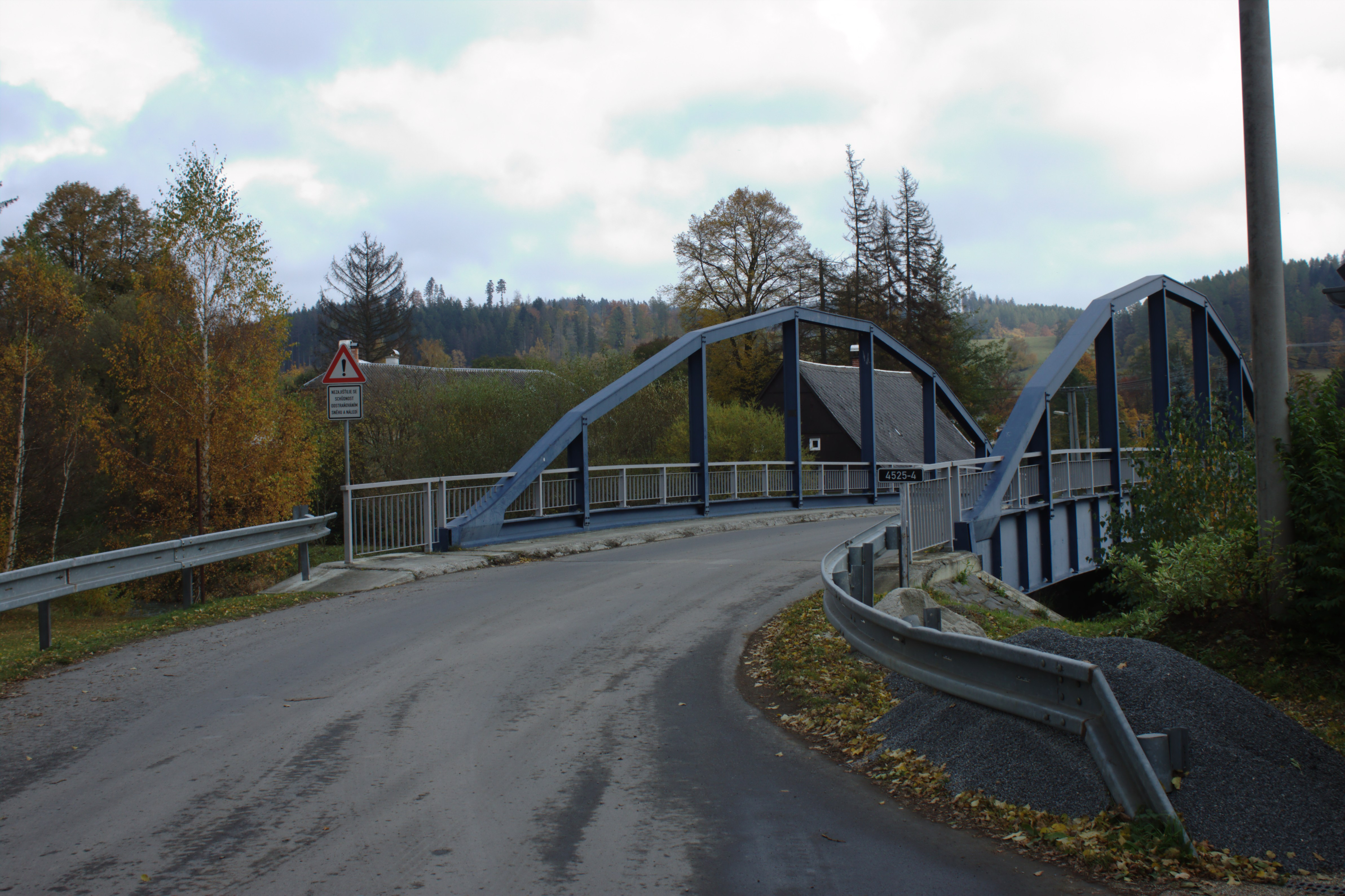 A bridge over the Opava River in Široká Niva, Moravian-Silesian Region, CZ